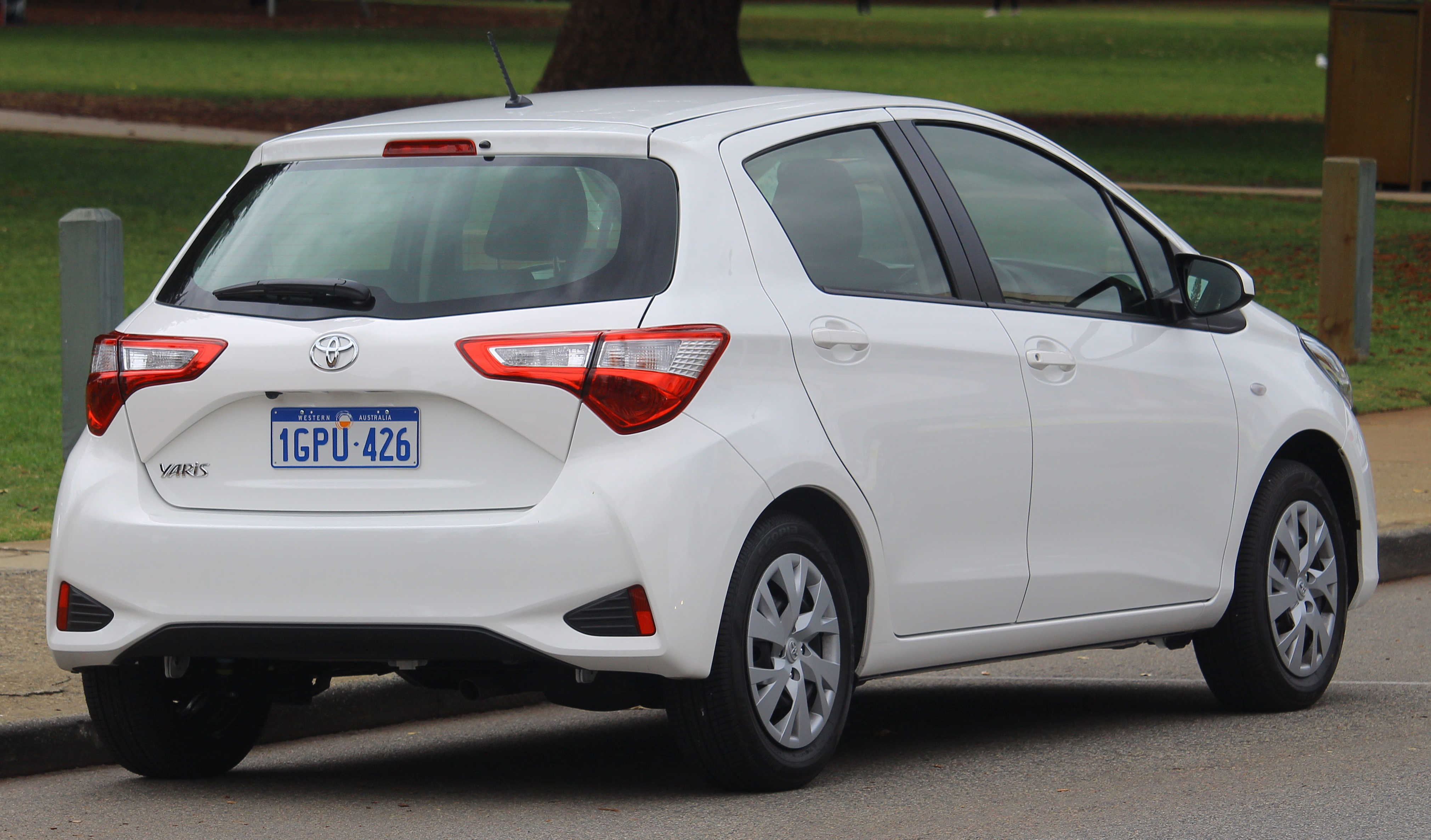 2018 Toyota Yaris (NCP130R) Ascent 5-door hatchback. Photographed in Fremantle, Western Australia, Australia.